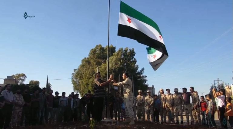 Daraa: Raising The Syrian Revolution Flag In Yadoda And Tal Shihab Towns 2-8-2017